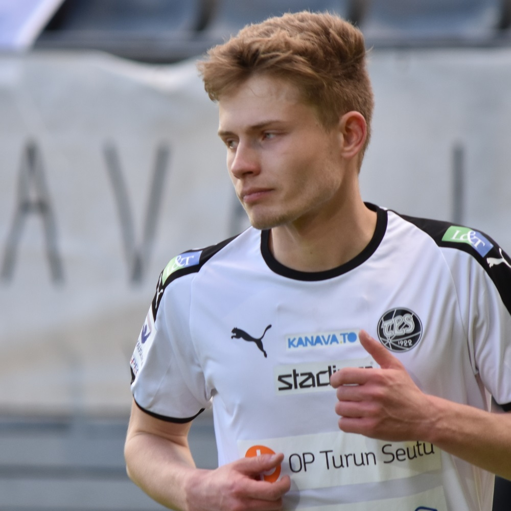 Football player Oskari Jakonen (TPS)